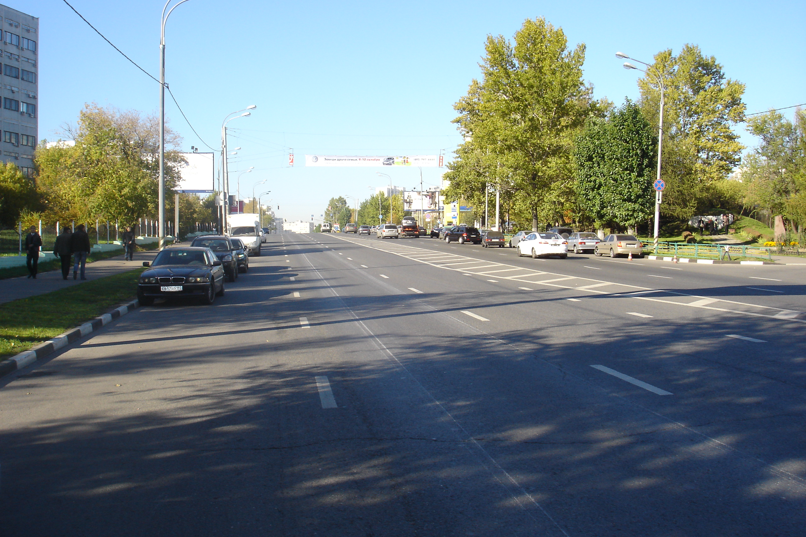 Obrucheva street. View from Kaluzhskaya metro station, near buildings ## 23 and 27. From the right side it is seen the Pillbox memorial